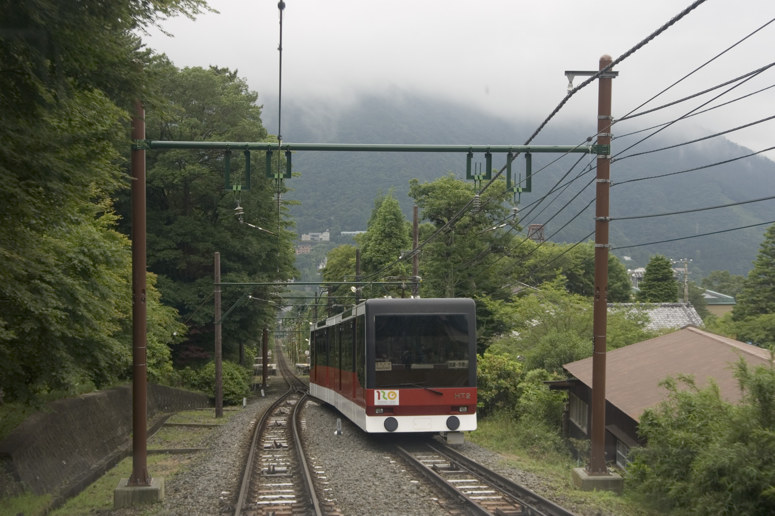 Train at Gora